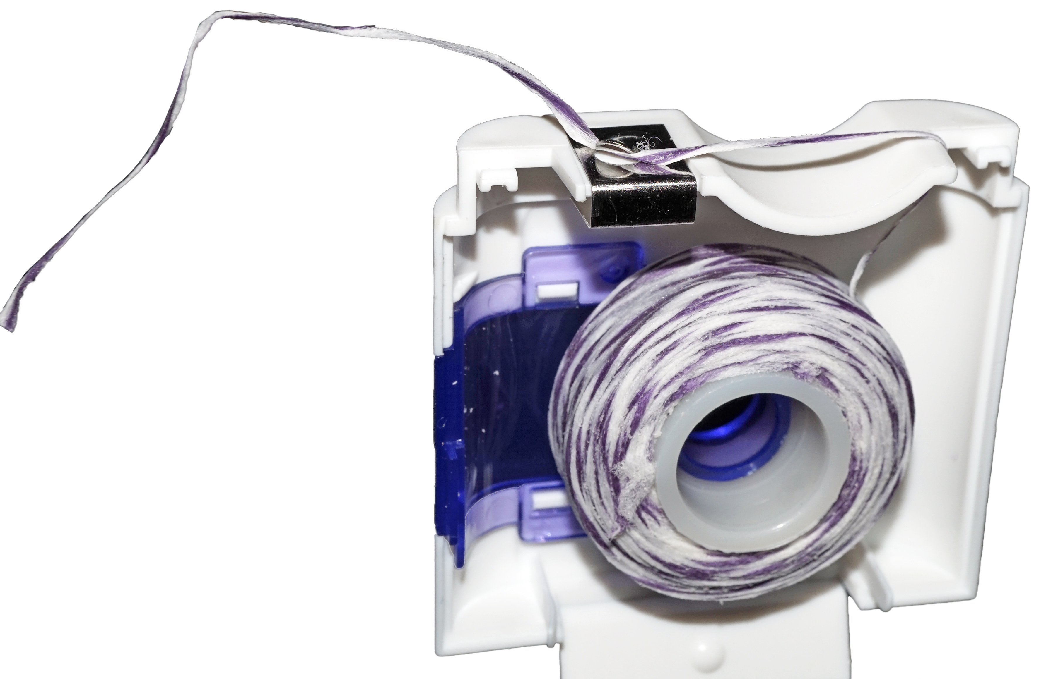 Opened dental floss box Jordan Multi Action Floss with fluoride.